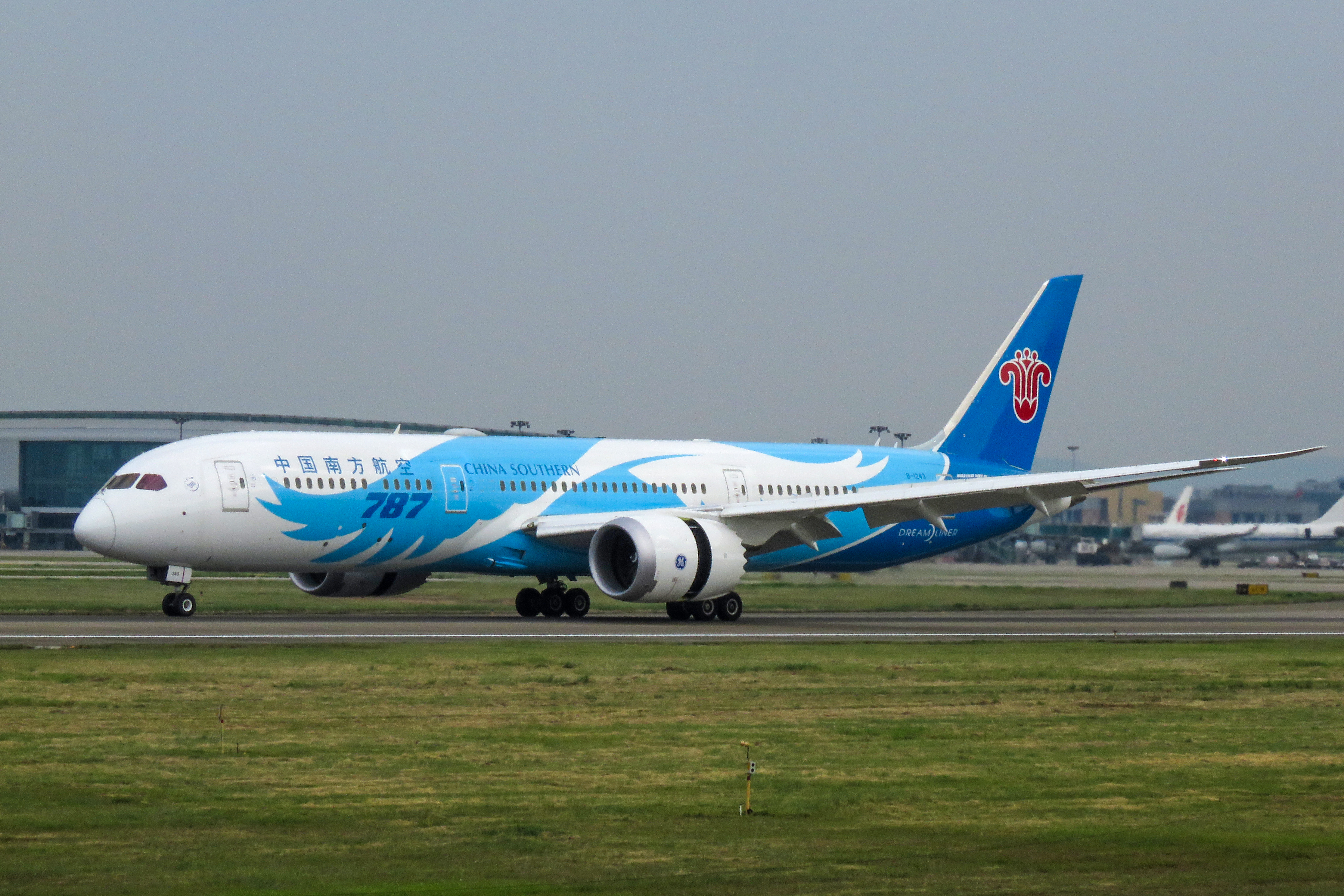 China Southern 3102 from Beijing.